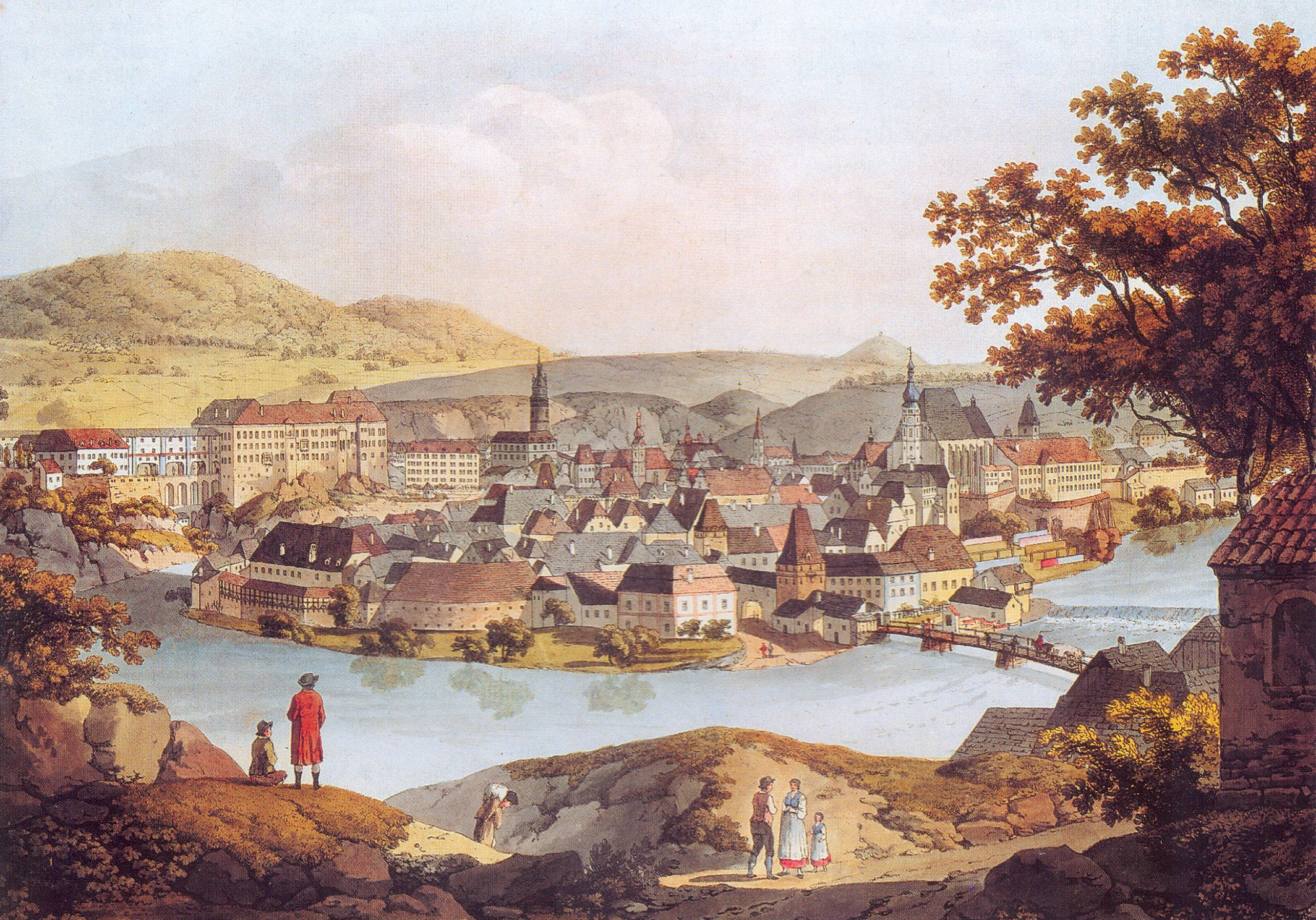 Český Krumlov, first quarter of 19th century